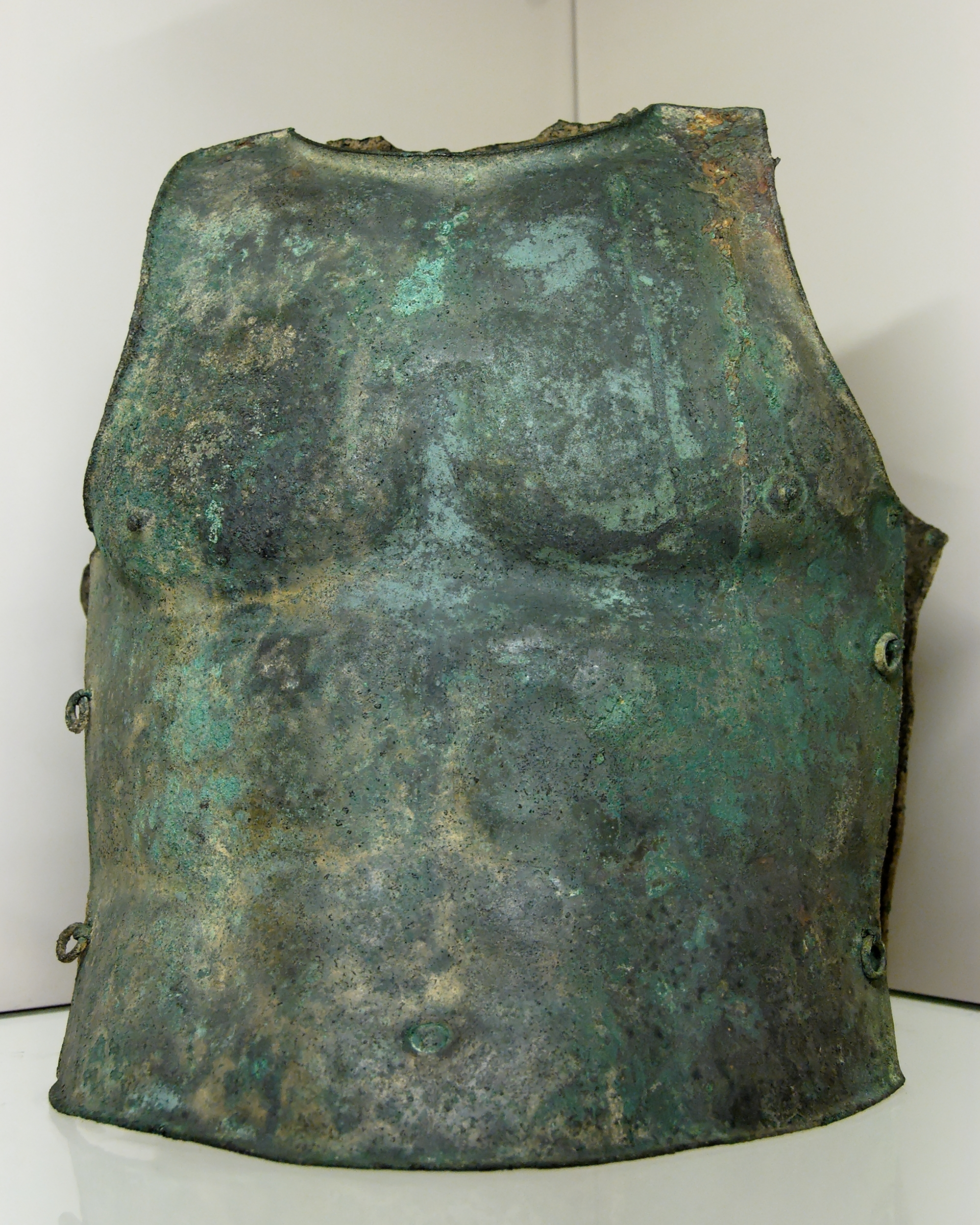 Two-parts cuirass modelled to fit, made in southern Italy.